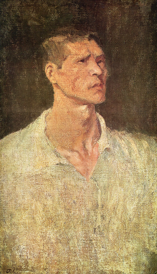 Ai Mitsu: Self-portrait, 1944, oil on canvas, 79x47 cm. Tokyo National Museum of Modern Art.